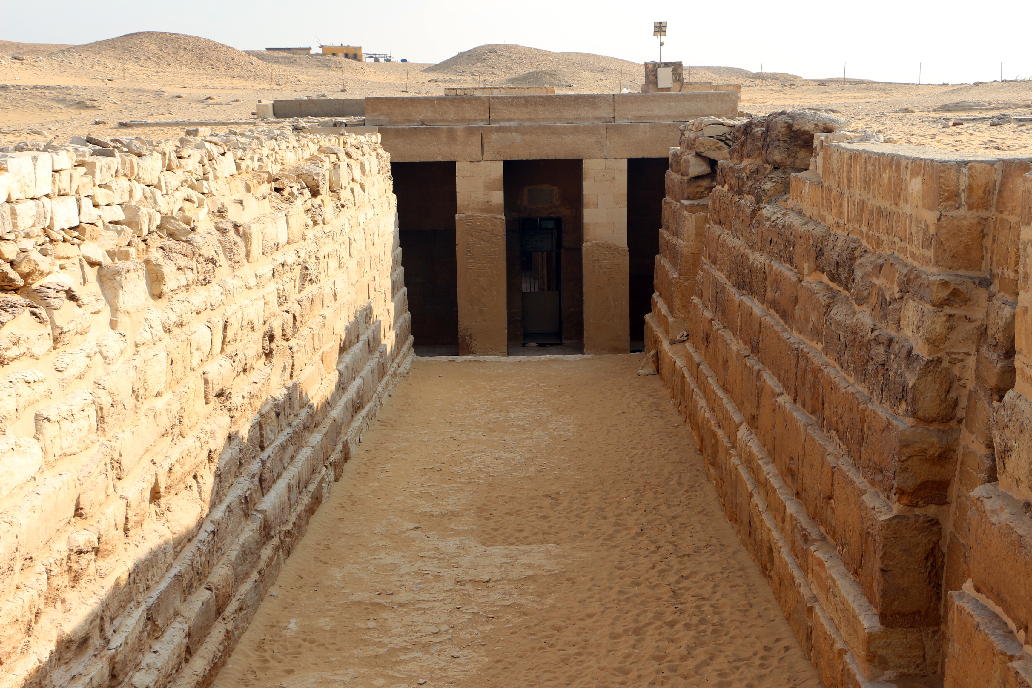 Mastaba of Ti